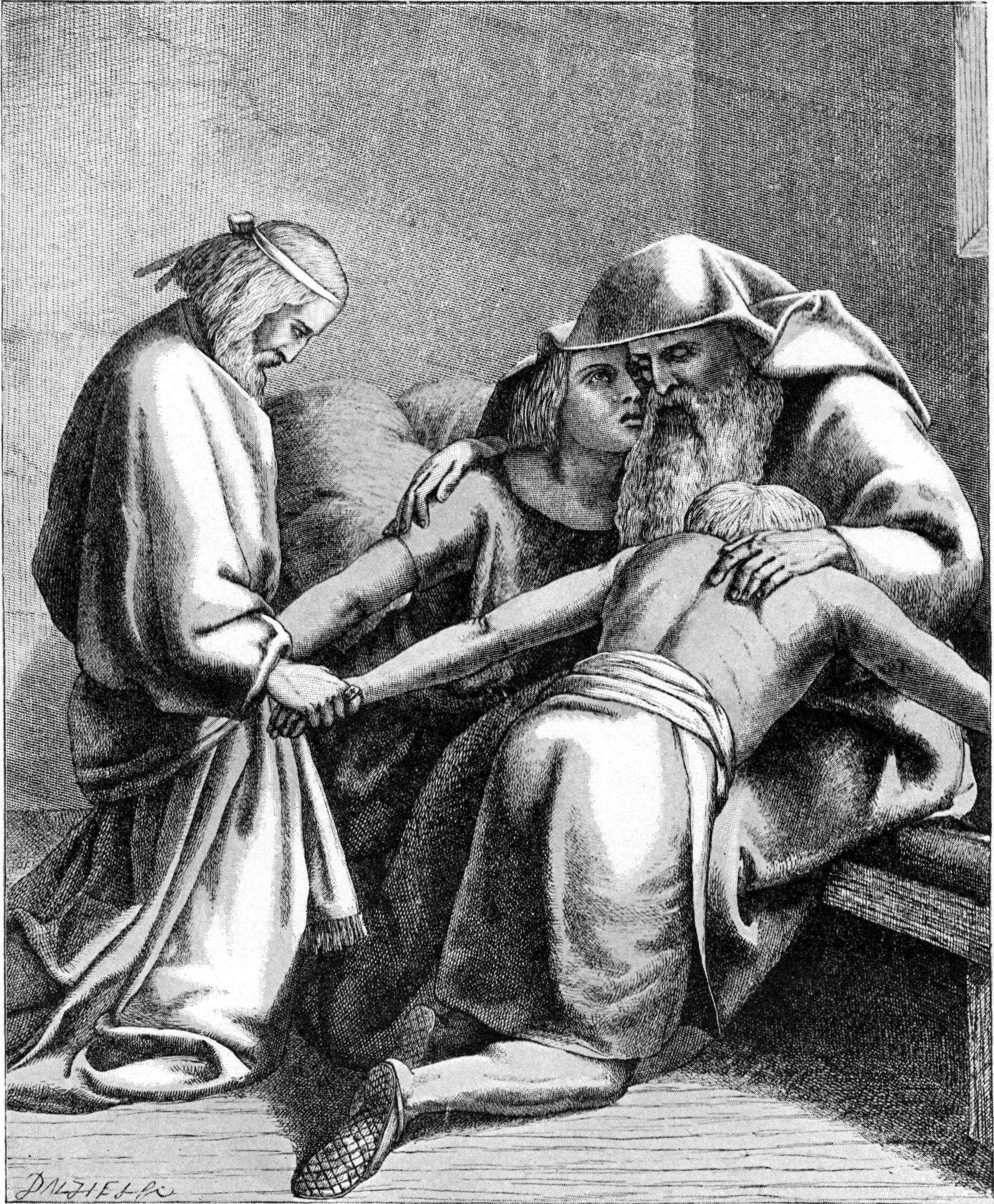 Jacob Is Blessing Joseph and His Sons. Caption: "Jacob is blessing Joseph and his sons. He is asking God to be kind to them after he is dead; for Jacob knows he has not long to live." Illustration from the 1897 Bible Pictures and What They Teach Us: Containing 400 Illustrations from the Old and New Testaments: With brief descriptions by Charles Foster